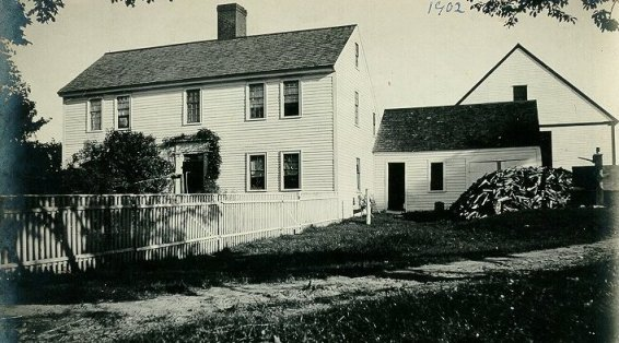 Col. John Robinson's Home